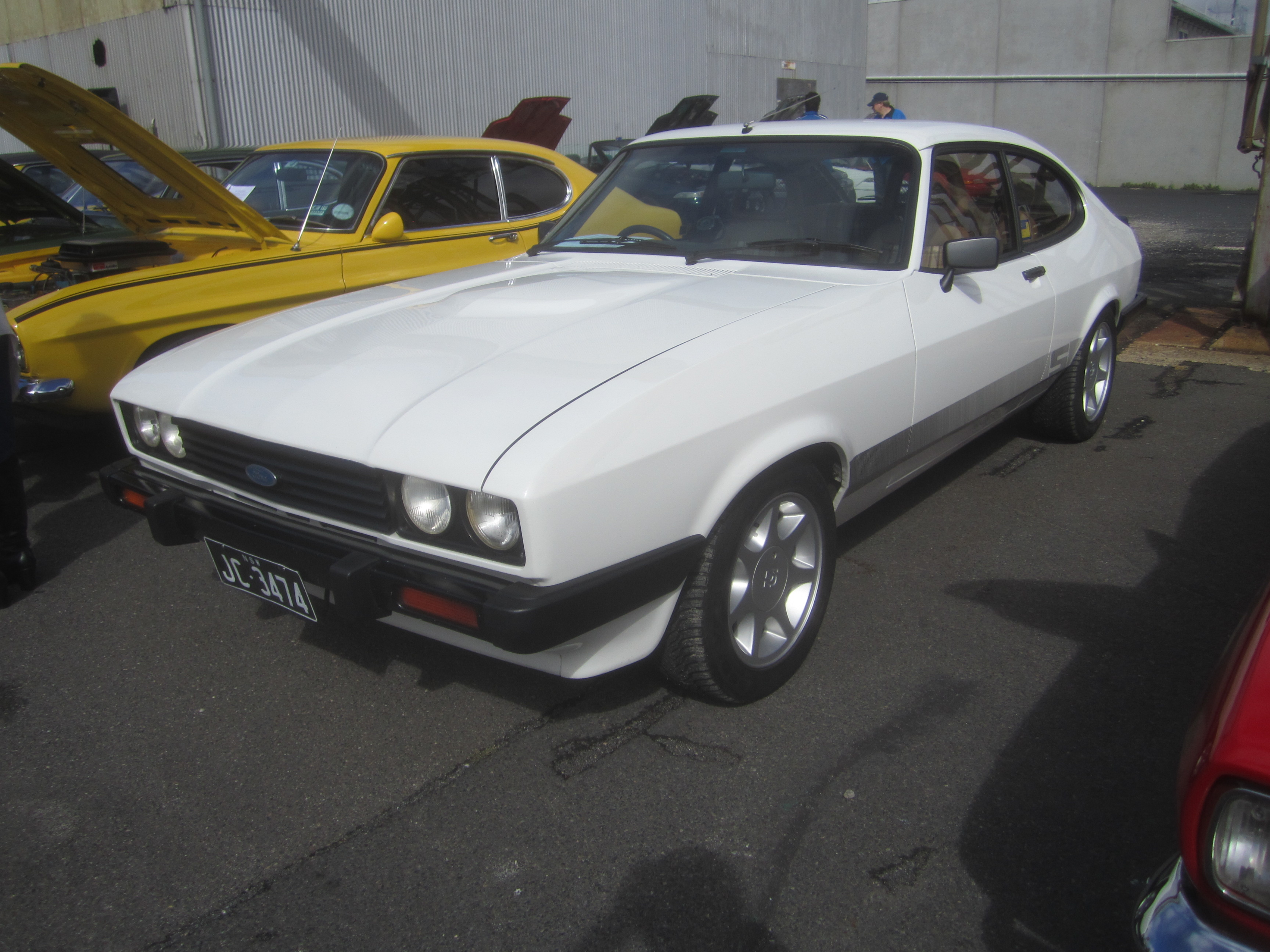 The Mk III Capri was built from 1978-86, it was not a lot different to the MkII, but it did featured improved aerodynamics, leading to improved performance and economy over the Mk II and the trademark quad headlamps were introduced and a black slatted grille. Models; L, LS, GL, S, Laser (1984), Ghia, 2.8 and 280 (1986). Engines; 1.3, 1.6, 2.0 in line 4 cyls. 2.0, 2.3, 2.8inj, 3.0 V6s. (The 2.8 injected replaced the 3.0 V6 in 1981) The sporty 3.0 S got the manual transmission whereas the more luxurious 3.0 Ghia was an automatic. (The 2.8 injected replaced the 3.0 V6 in 1981)